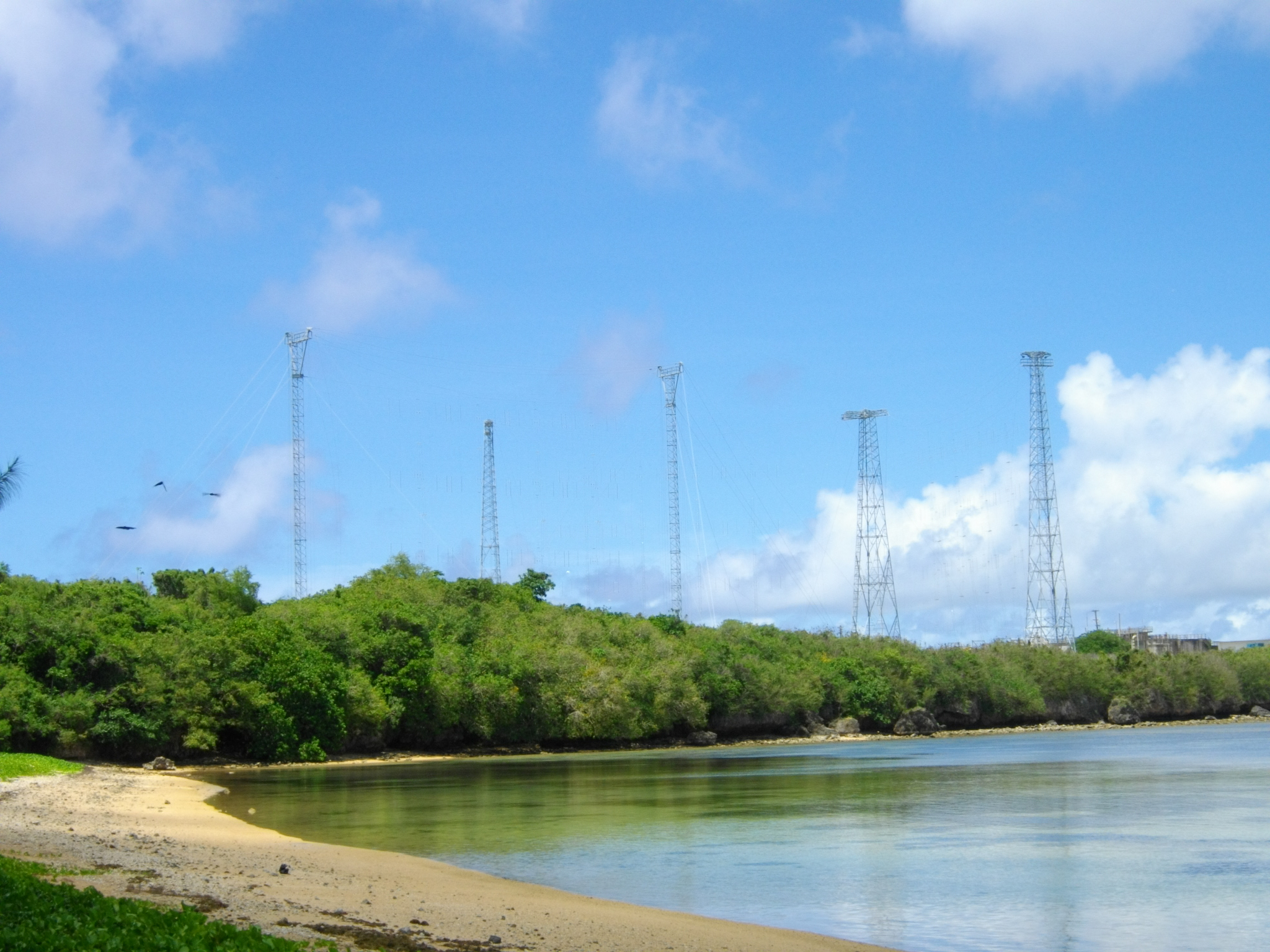 Puntan Agingan